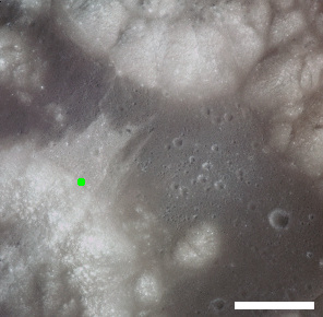 Green dot shows location of Nansen-Apollo, Taurus-Littrow Valley, on the moon. Scale bar at lower right is 5 km.